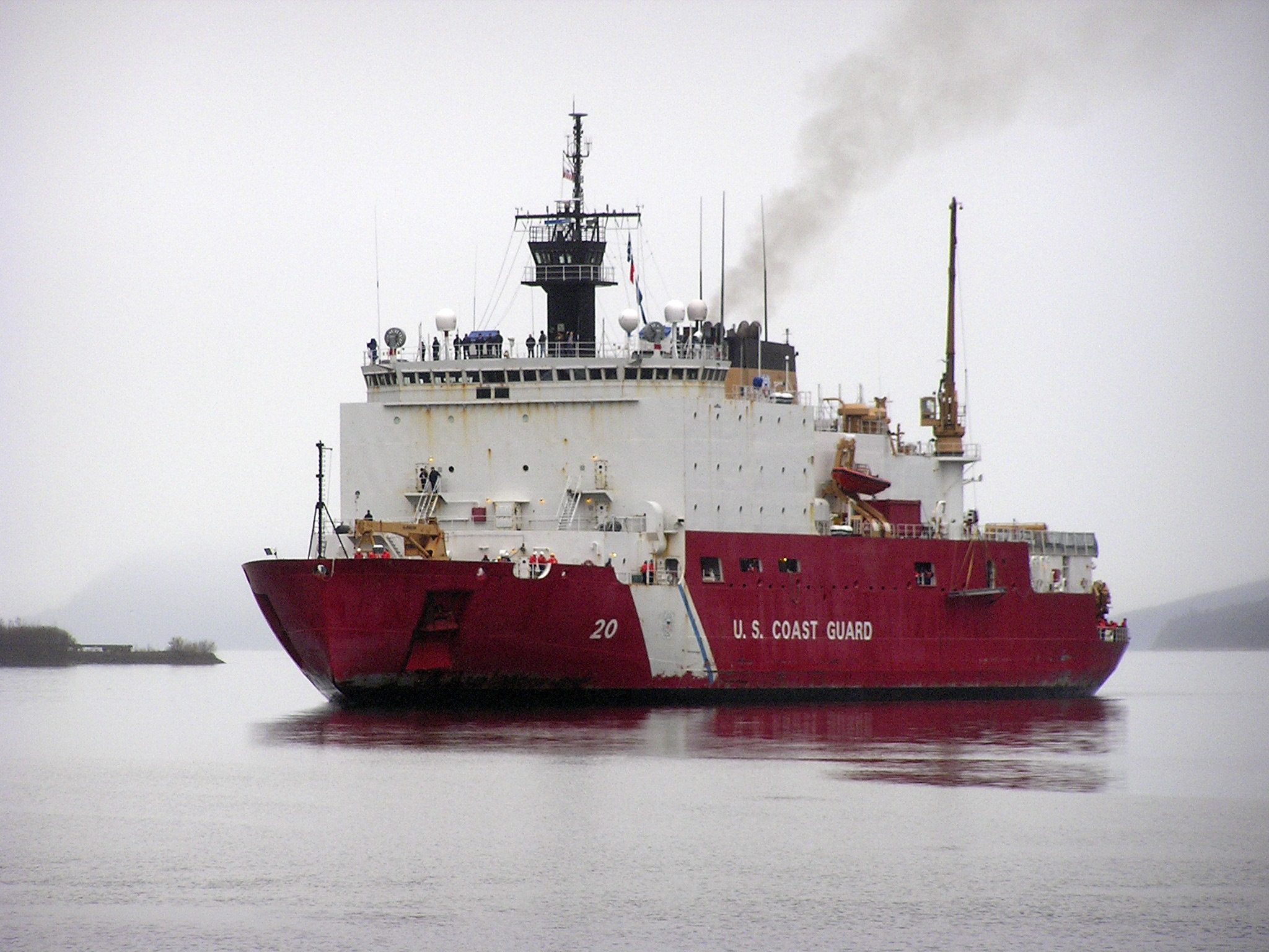 USCG in Juneau